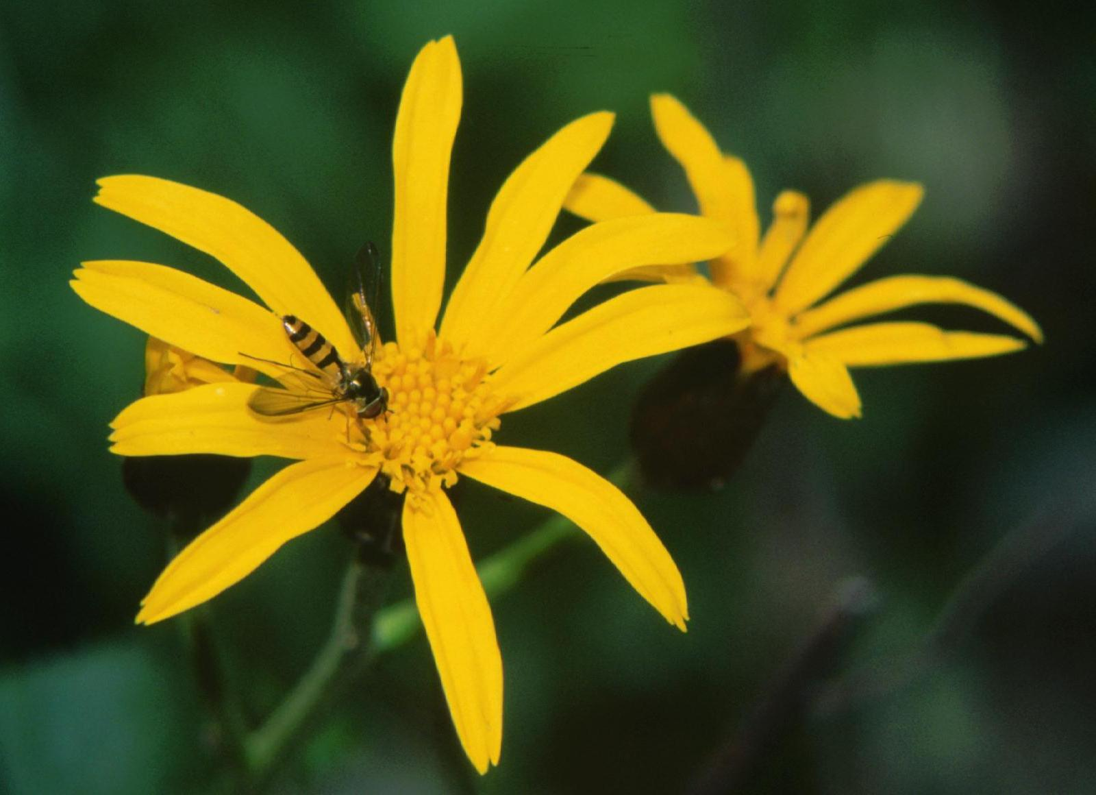 Ligularia fischeri and Honey bee in Mount Senjō, Japan.